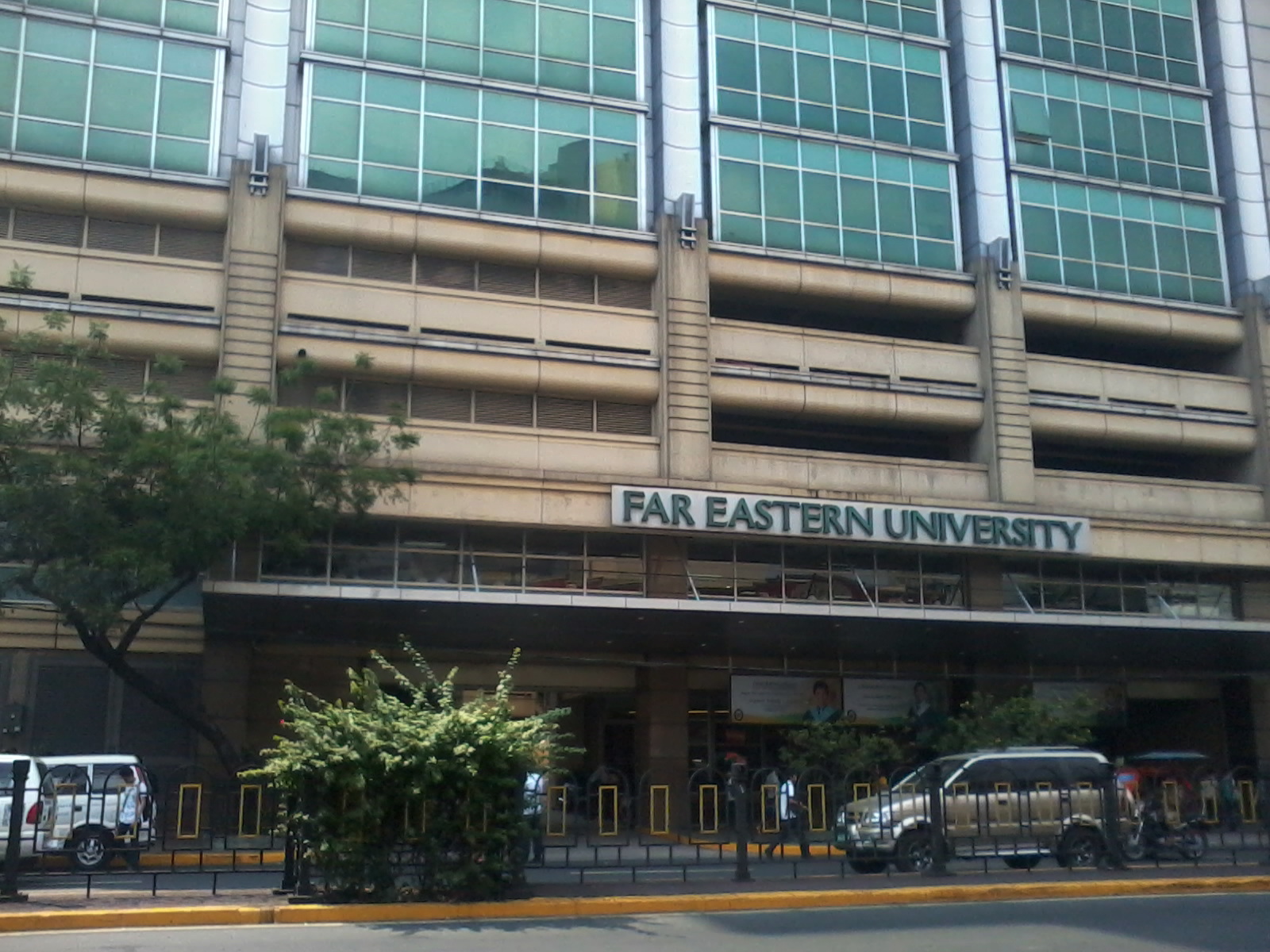 Far Eastern University